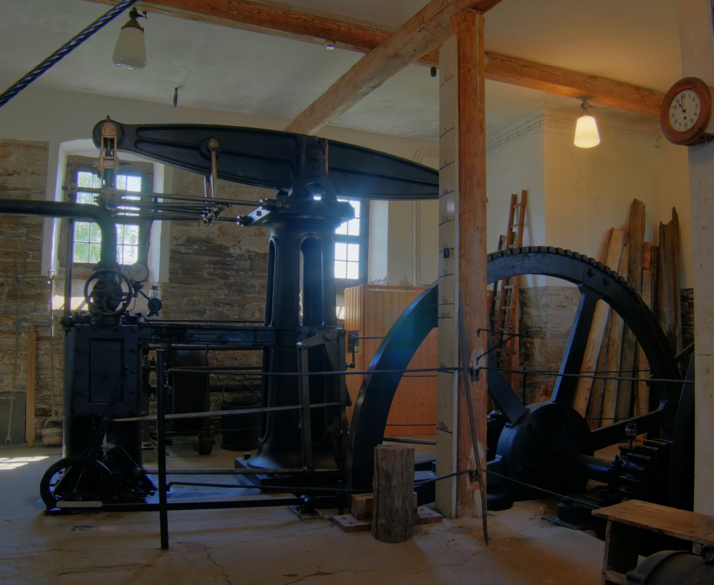 Watt type steam engine of the silver mine "Alte Elisabeth", Freiberg, Germany. This engine was built in Germany in 1848 after the design patented by Watt. It was never patented in Germany, the British patents ran out in 1800.